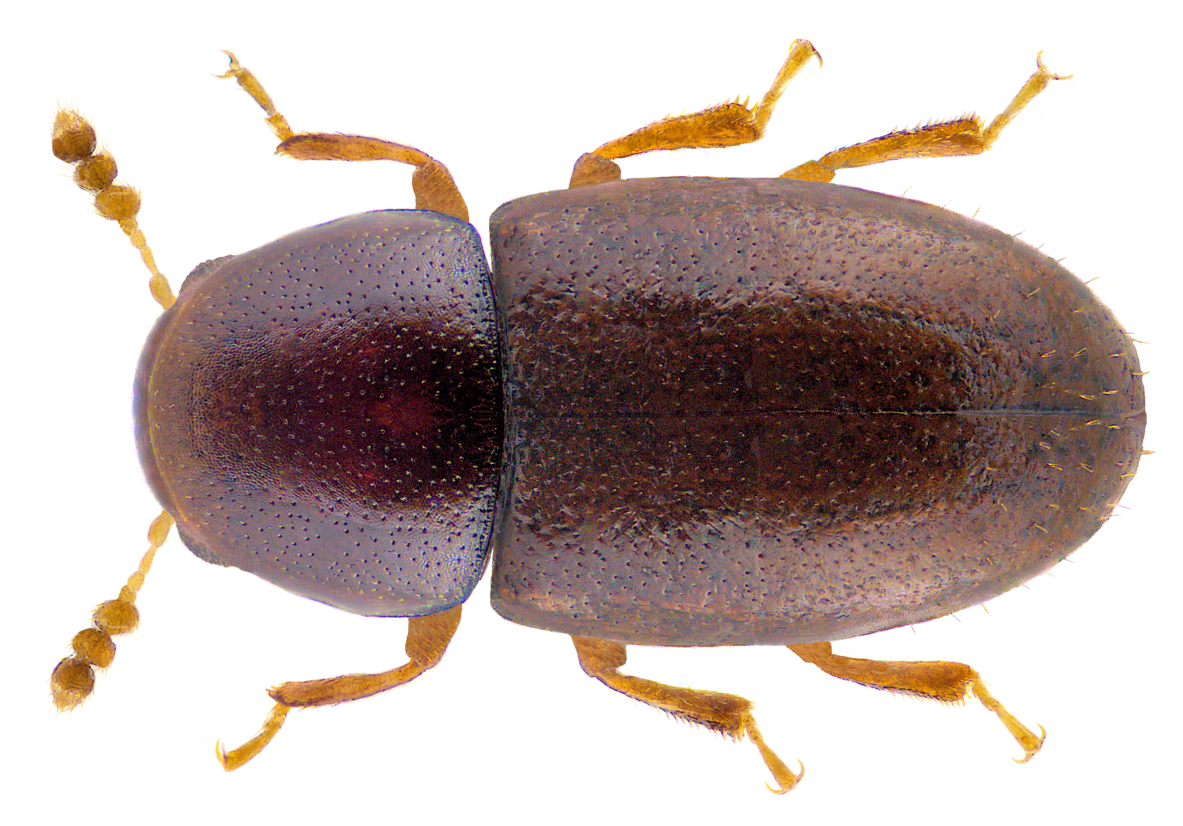 Family: Ciidae (Cisidae) Size: 1.5 mm (1.5 to 1.8 mm) Distribution: Europe Ecology: The beetles live in hard tree sponges Location: Germany, Bavaria, Upper Franconia, Thurnau/ Neudorf, Langeruh leg.det. U.Schmidt, 30.VIII.1975 Photo: U.Schmidt, 2017